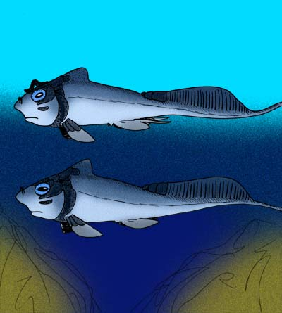 Reconstruction of the ptyctodont placoderm Ctenurella gladbachensis, of Late Devonian Europe.